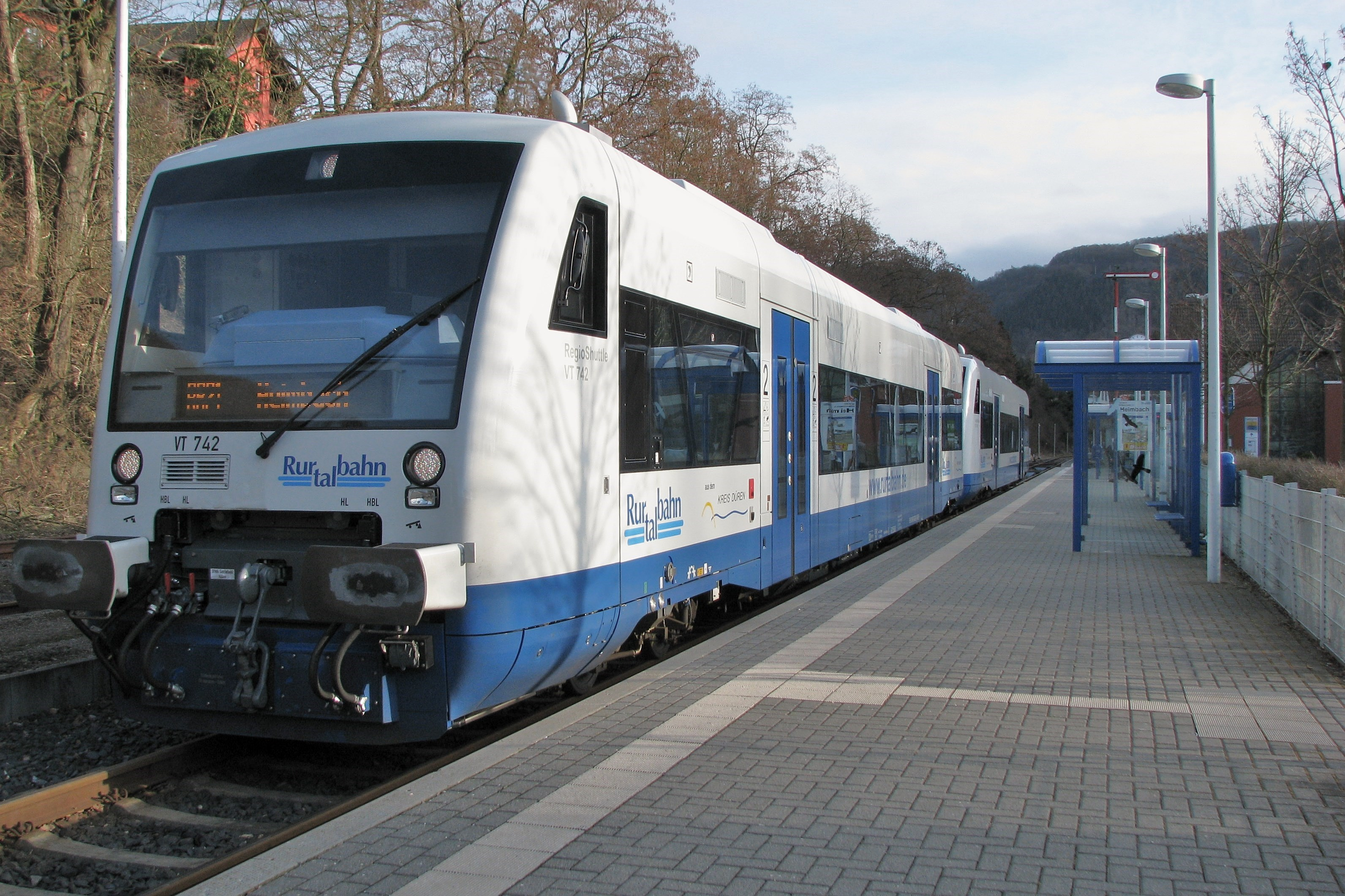 2 Stadler Regio-Shuttle RS1 (VT742+VT740) of the Rur Valley railway at Heimbach station.